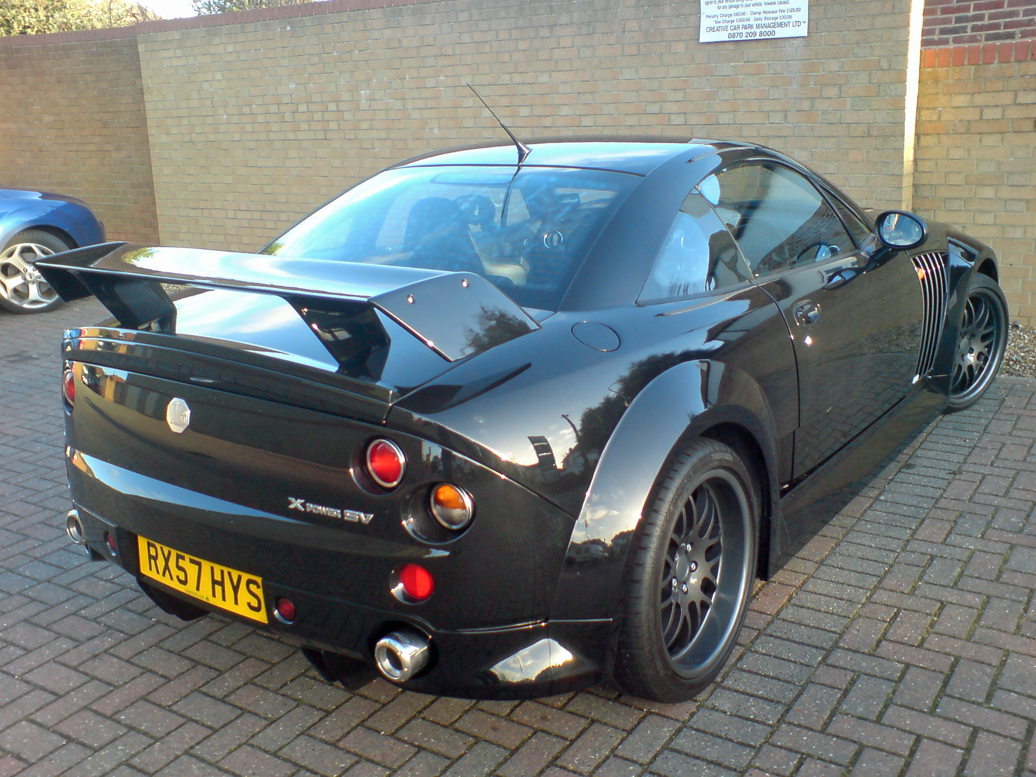 MG XPower SV This is the first and only time I have seen one of these on the road. According to the owner's club only some 58 were built between 2003 and 2005.